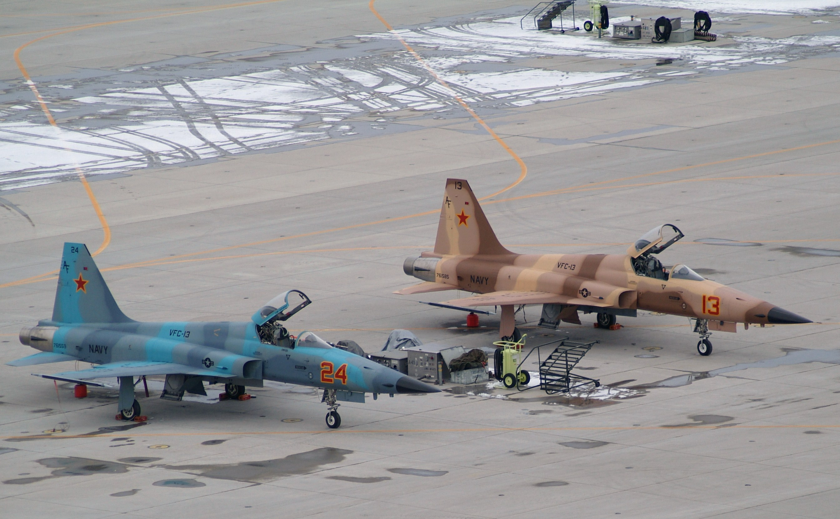 Both these aircraft have left VFC-13 now. '24' is with VMFT-401 coded 'LS-06' and '13' is with VFC-111 as 'AF-115'